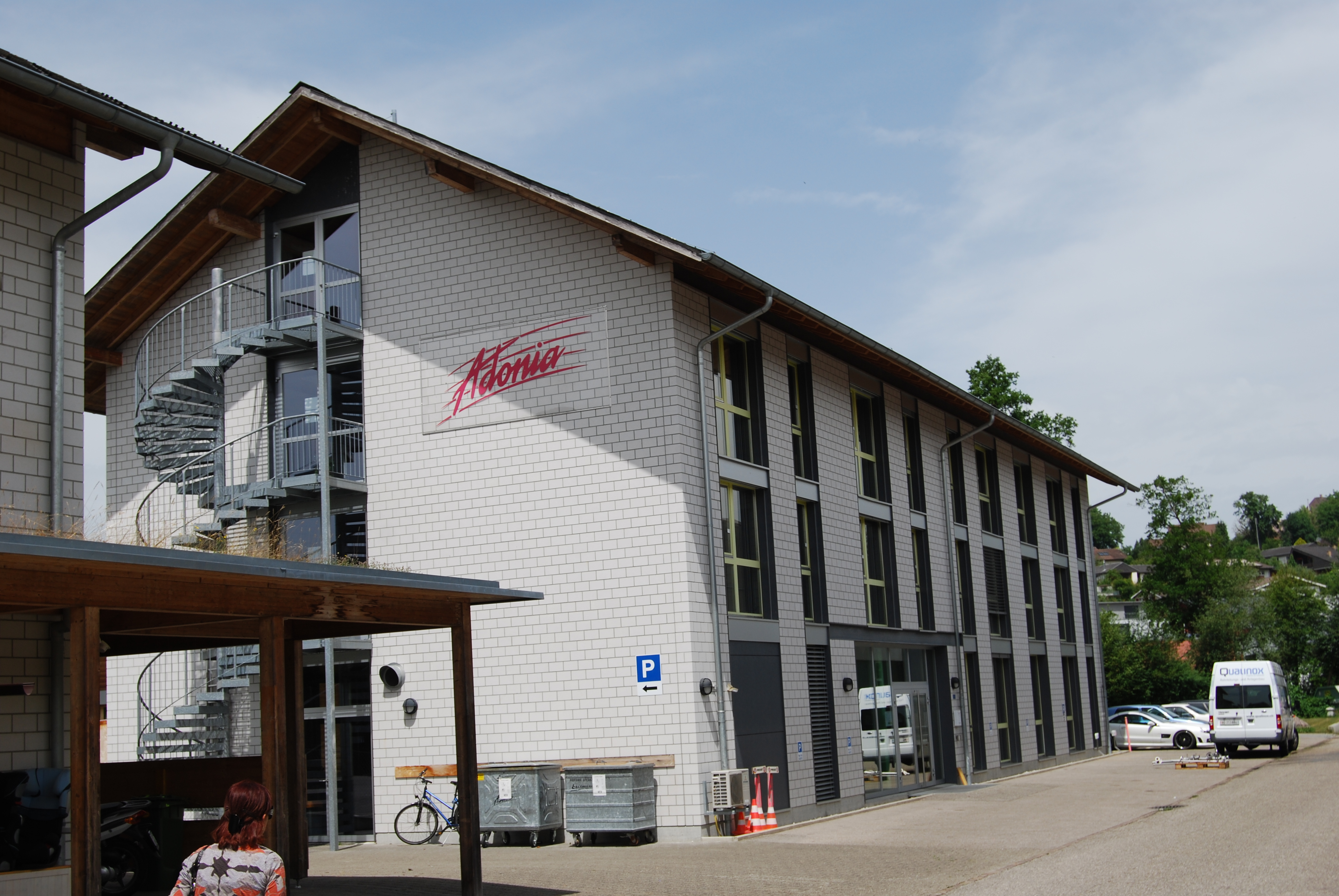 Adonia Center, place of the 7th SFERO 2014, Vordemwald, canton of Aargau, Switzerland